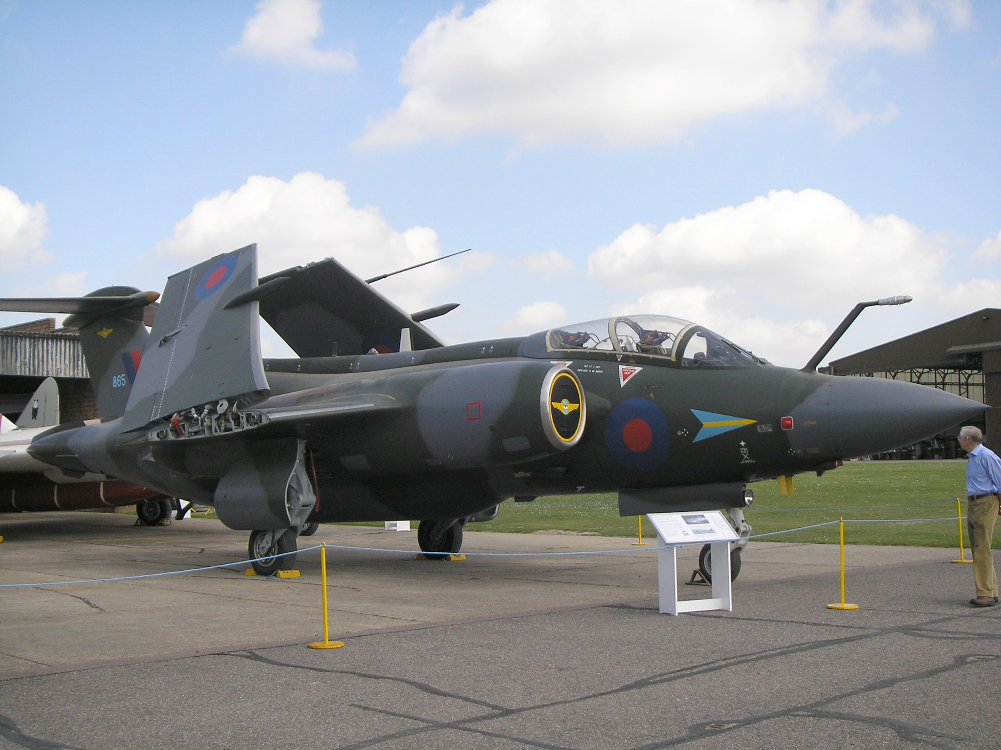 A Blackburn Buccaneer on display at Imperial War Museum Duxford in May 2006